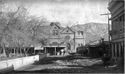 The construction of the Santa Fe Cathedral in 1885, in Downtown Santa Fe, New Mexico. The plaza is also visible, along with buildings that still exist today.